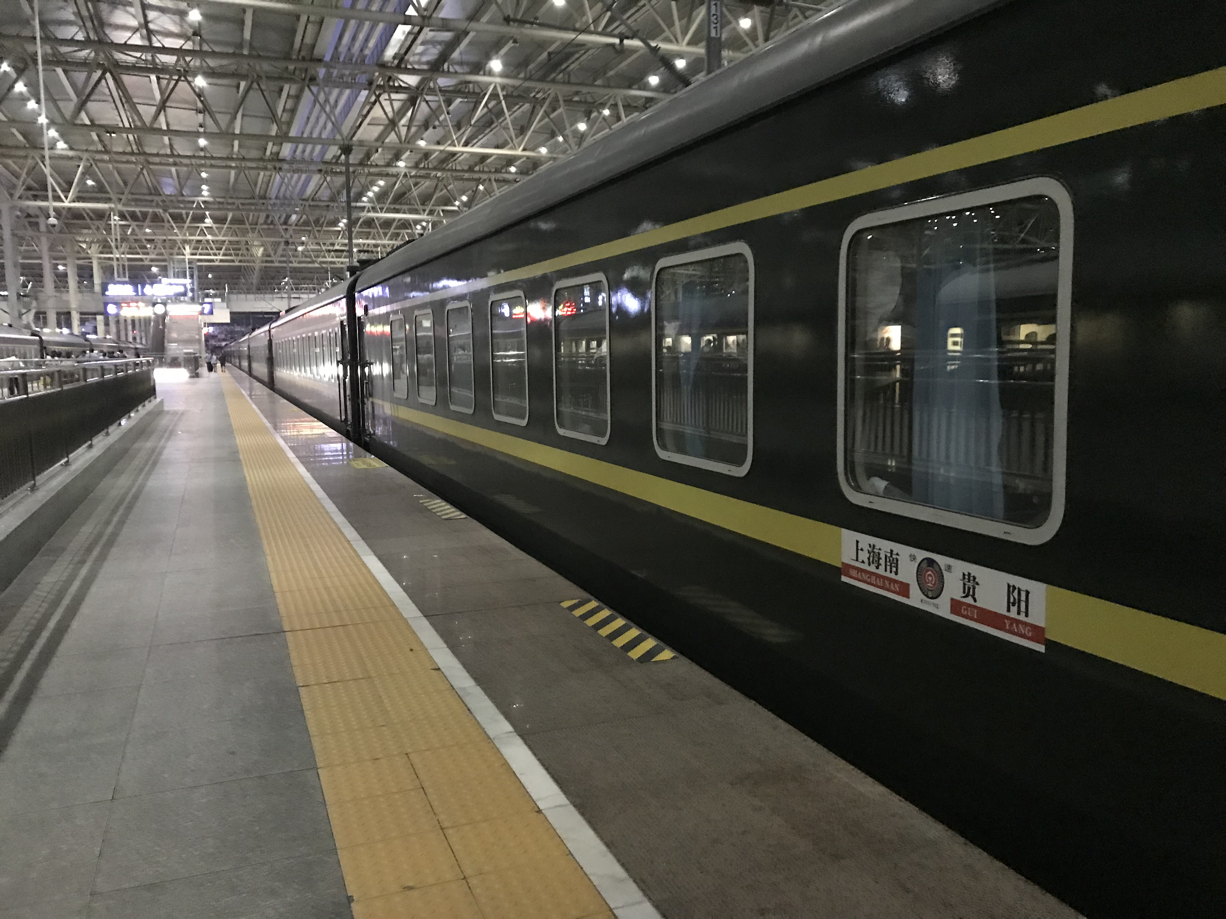 K111 from Shanghai South to Guiyang